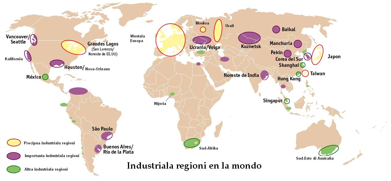 industry in the world